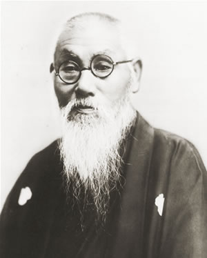 Japanese right-wing nationalist Mitsuru Tōyama (頭山満, 1855–1944)